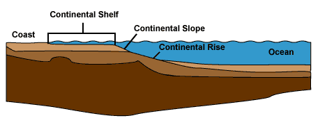 Cross-section of continental margin depicting the particular elements